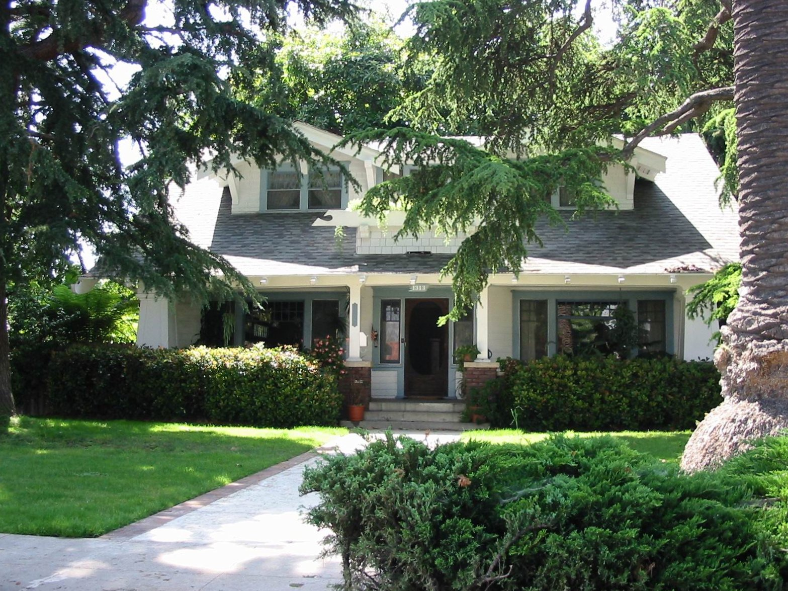 1313 Cota Avenue, Torrance, California, USA (aka 1630 Revello Drive, Sunnydale in Buffy the Vampire Slayer)